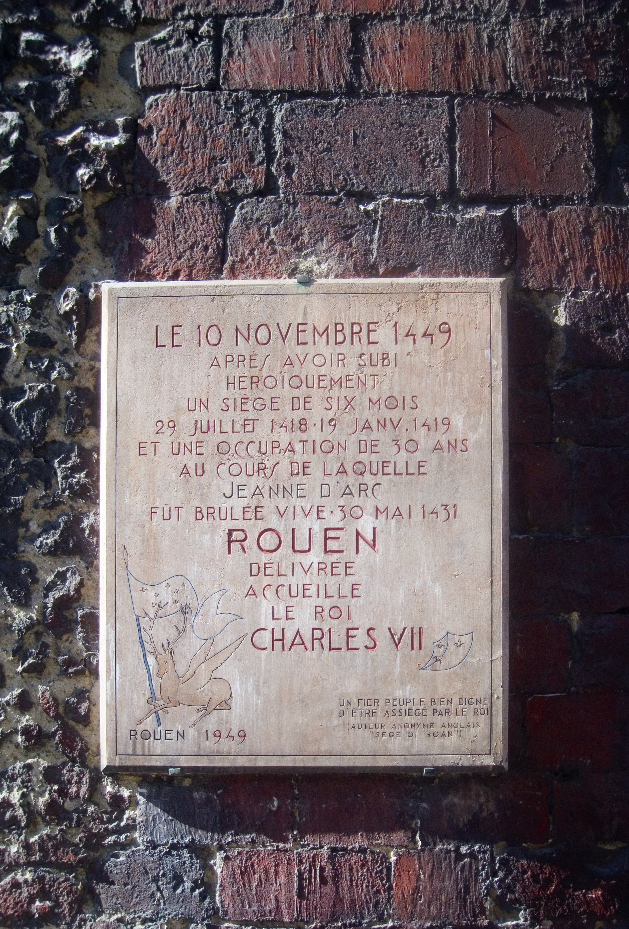 Historical Marker on the side of the Tour Jeanne d'Arc in Rouen.